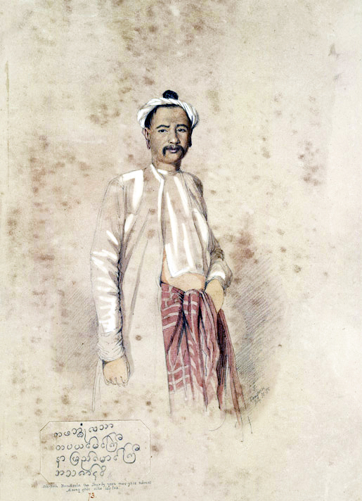 Watercolour in pen and ink of a portrait of Moung-ghee (Maung Gyi), the son of the renowned General Maha Bandula, in Yangoon (R Zar Ni). Under the prestige of his father's name, and not from any display of military talent or disposition in himself, Moung-ghee was appointed General of the Burmese army sent against the British at commencement of the last war; when expectations of the wonders which he was to have accomplished being disappointed, or dissatisfaction in some way occasioned, he was recalled to the capital; but fully knowing this was but the prelude to the loss of his head, Moung-ghee very wisely came over to the British, by whom he was, and continues to be, kindly treated. He has a pension from Government; but he is said to be gratified in a yet greater degree by a small grant of land made to him by the Governor General, Lord Dalhousie. Moung-ghee is far above the ordinary stature of the Burmese, being full six feet in height, and well made in proportion. He is exceedingly cheerful, happy and contented.